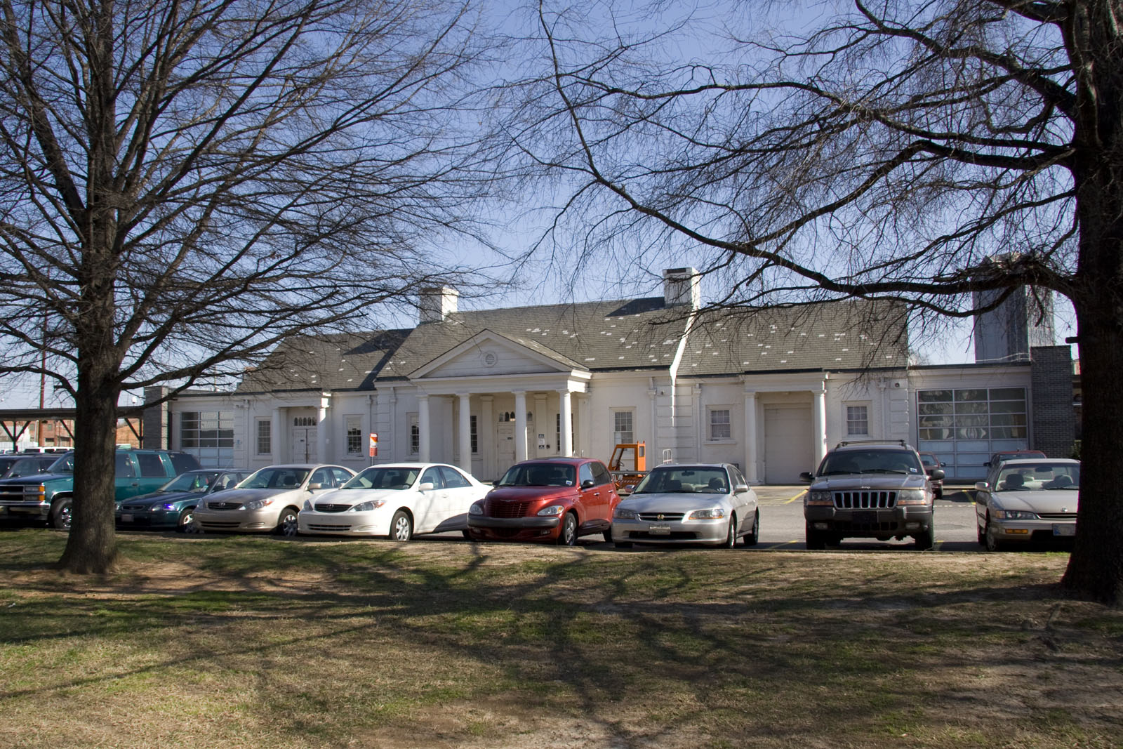 Station currently in use by Amtrak in Raleigh NC